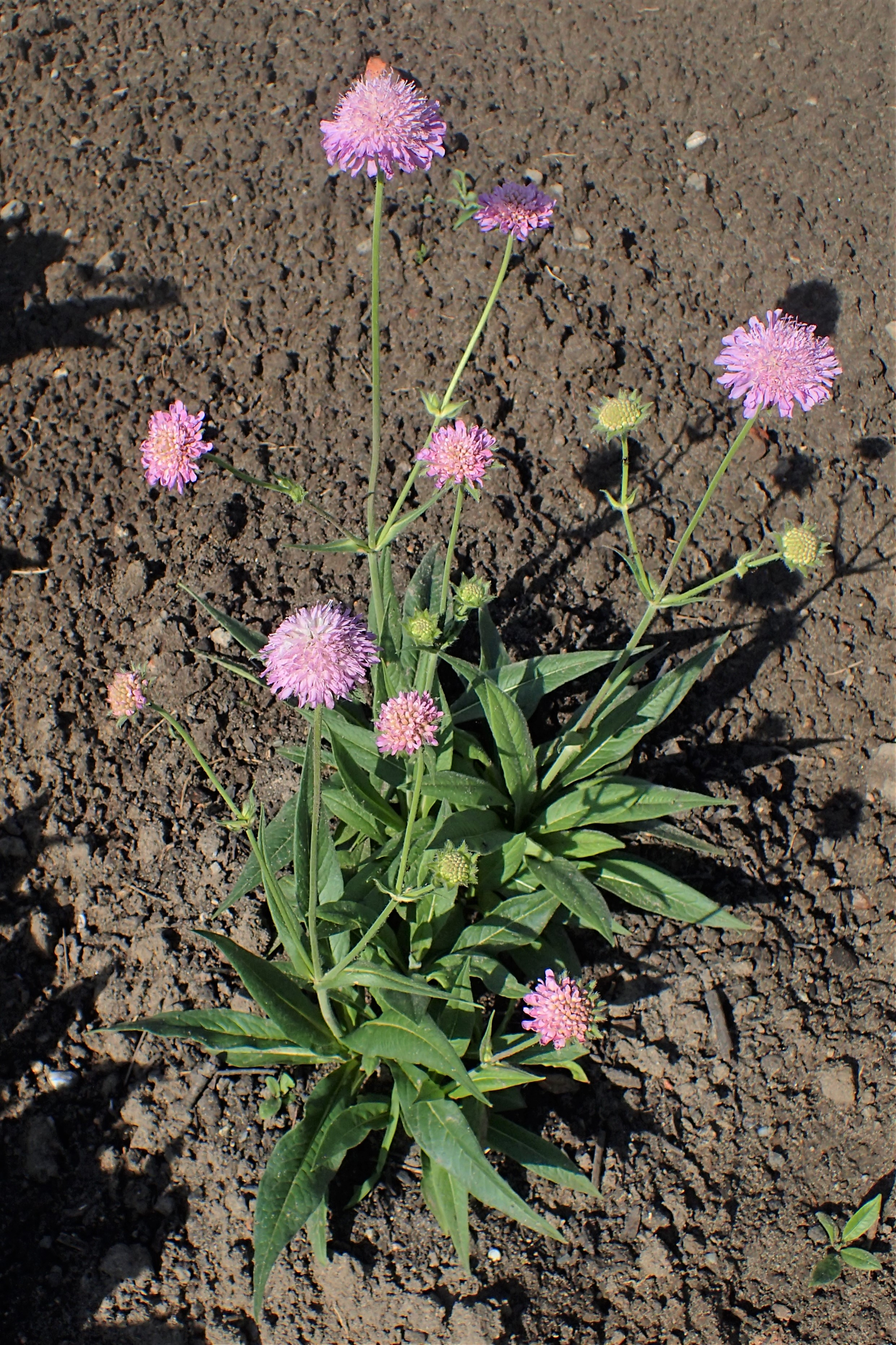 Knautia longifolia in the Botanischer Garten, Berlin-Dahlem